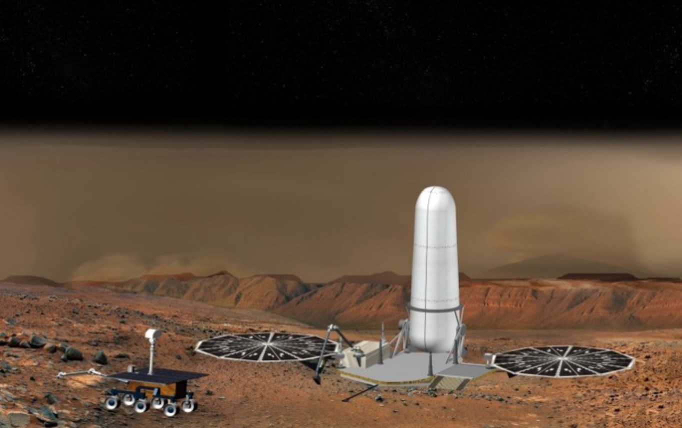 Mars-sample-return : Mars-ascent-vehicule